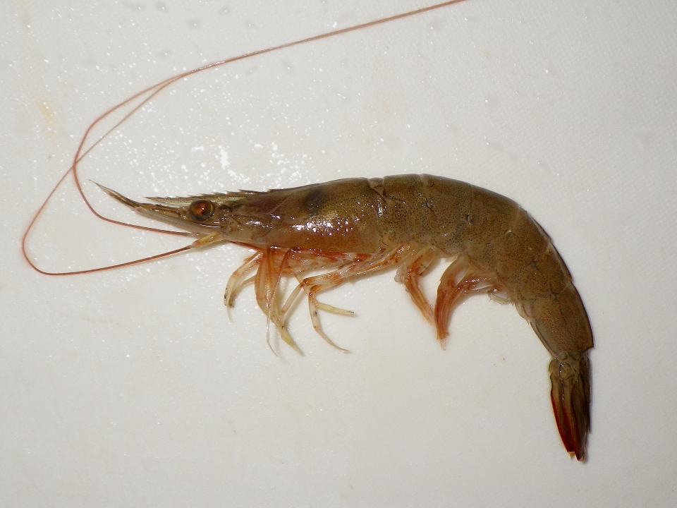 Metapenaeus ensis (De Haan,1844), male, fished at Omura bay(Nagasaki).